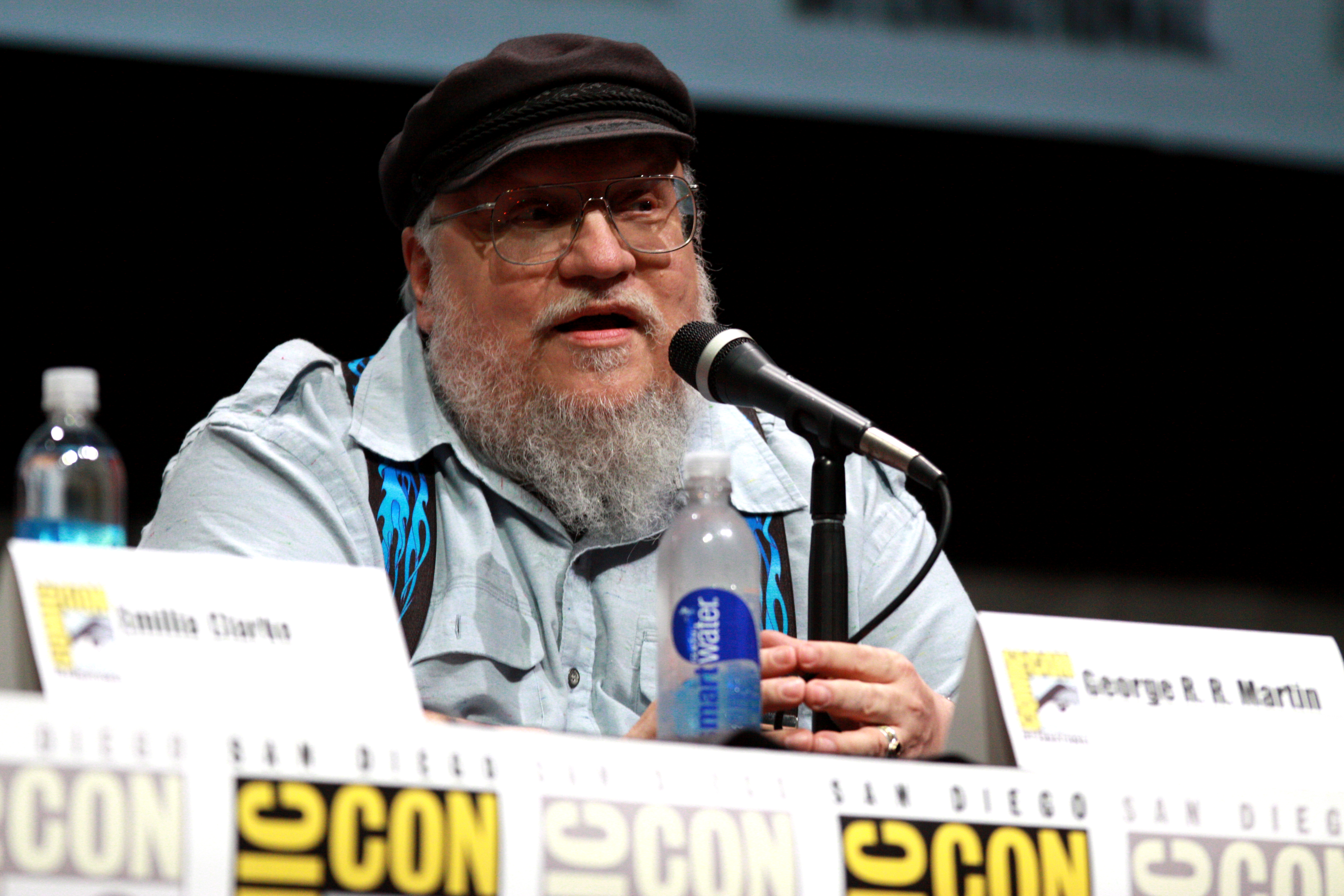 George R. R. Martin speaking at the 2013 San Diego Comic Con International, for "Game of Thrones", at the San Diego Convention Center in San Diego, California.